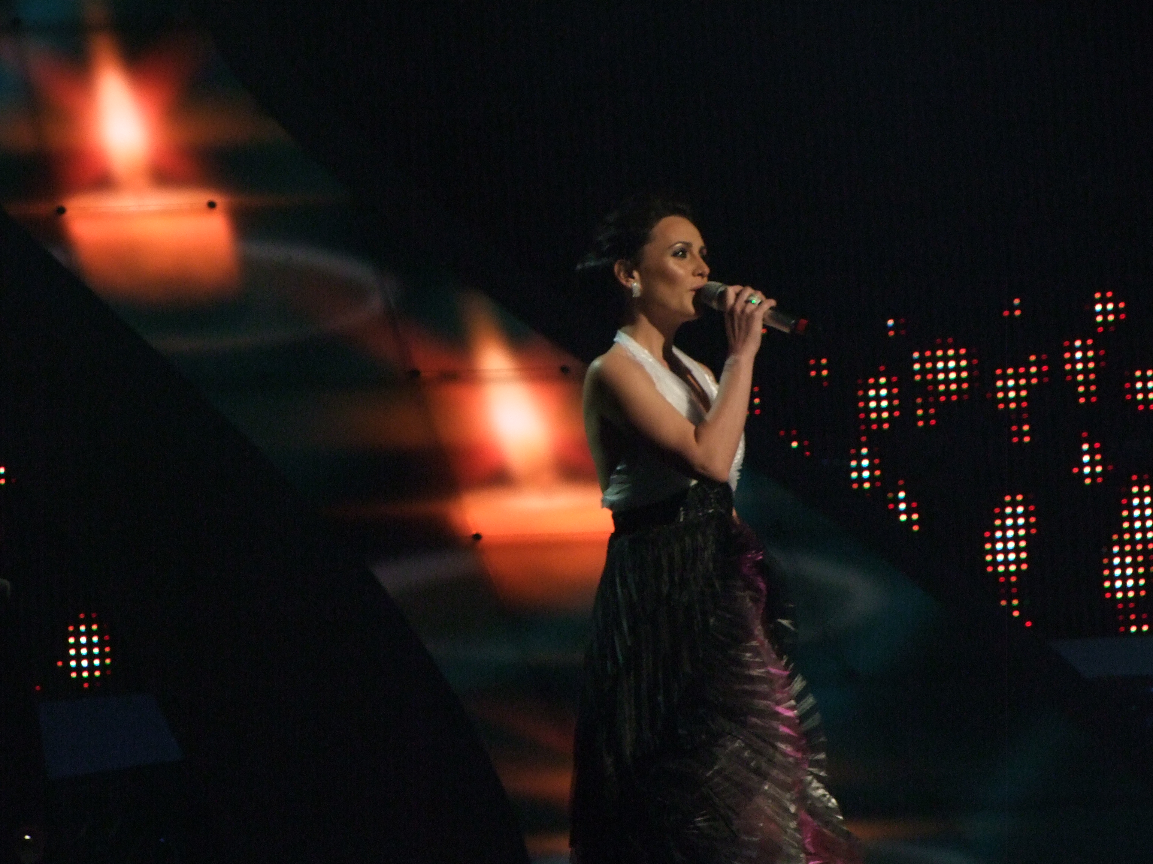 Csézy in the 2nd semi-final at the Eurovision Song Contest in Belgrade